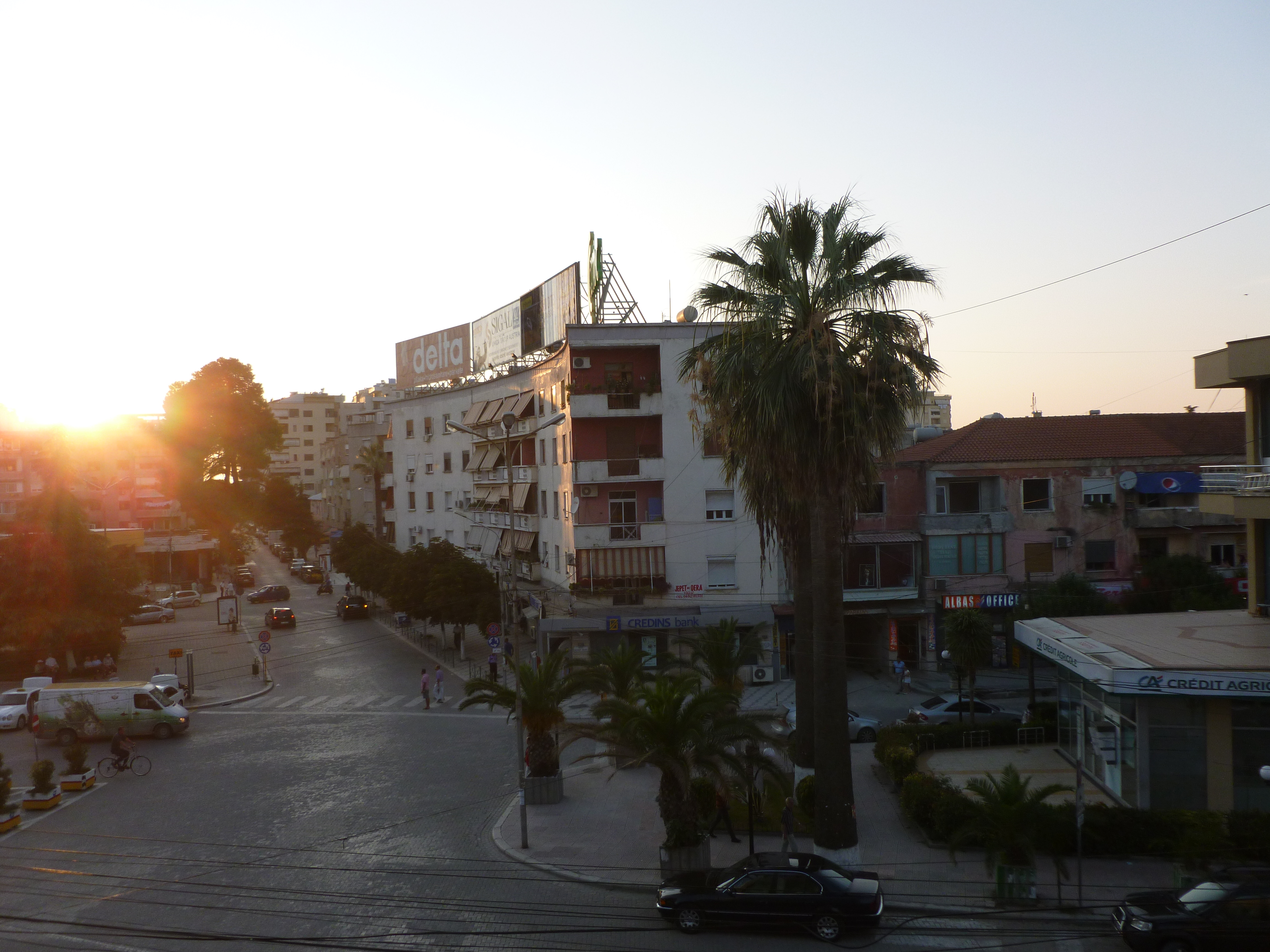 Fier in Albania